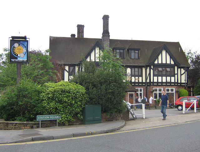 Daylight Inn. Opened in December 1935, and built in a mock Tudor style to fit in with the surroundings of Station Square, to a design of Sydney Clarke. It included a large ballroom/banqueting hall with stage, and served as a venue for public meetings/amateur dramatics/dinners. In its early years it was also a hotel with 13 bedrooms. The name refers to the campaign by William Willett, who lived in nearby Chislehurst, and whose campaigning at the start of the 20th century had led to the eventual introduction of summer time. It was while horse riding in Petts Wood (the wood itself, pre development) that the idea of daylight saving came to him. Other than this pub, he is commemorated in various ways in Petts Wood, with a road and a recreation ground named after him, as well as a memorial in Petts Wood (see 54683).